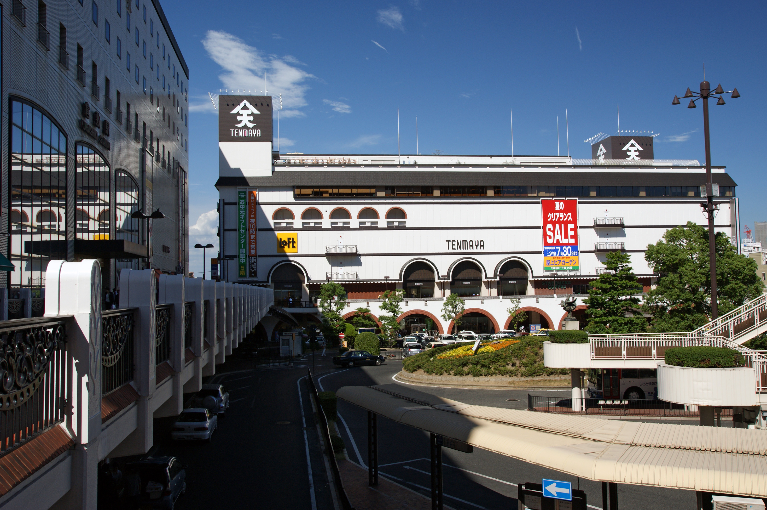 Tenmaya Kurashiki store in Kurashiki, Okayama prefecture, Japan